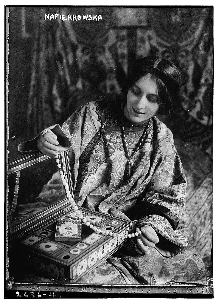 Bain News Service,, publisher. Napierkowska [no date recorded on caption card] 1 negative : glass ; 5 x 7 in. or smaller. Notes: Title from unverified data provided by the Bain News Service on the negatives or caption cards. Forms part of: George Grantham Bain Collection (Library of Congress). Format: Glass negatives. Repository: Library of Congress, Prints and Photographs Division, Washington, D.C. 20540 USA, General information about the Bain Collection is available at Persistent URL: Call Number: LC-B2- 2636-4